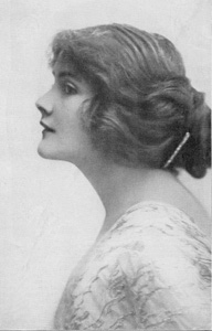 Jeanne Eagels in The Crinoline Girl